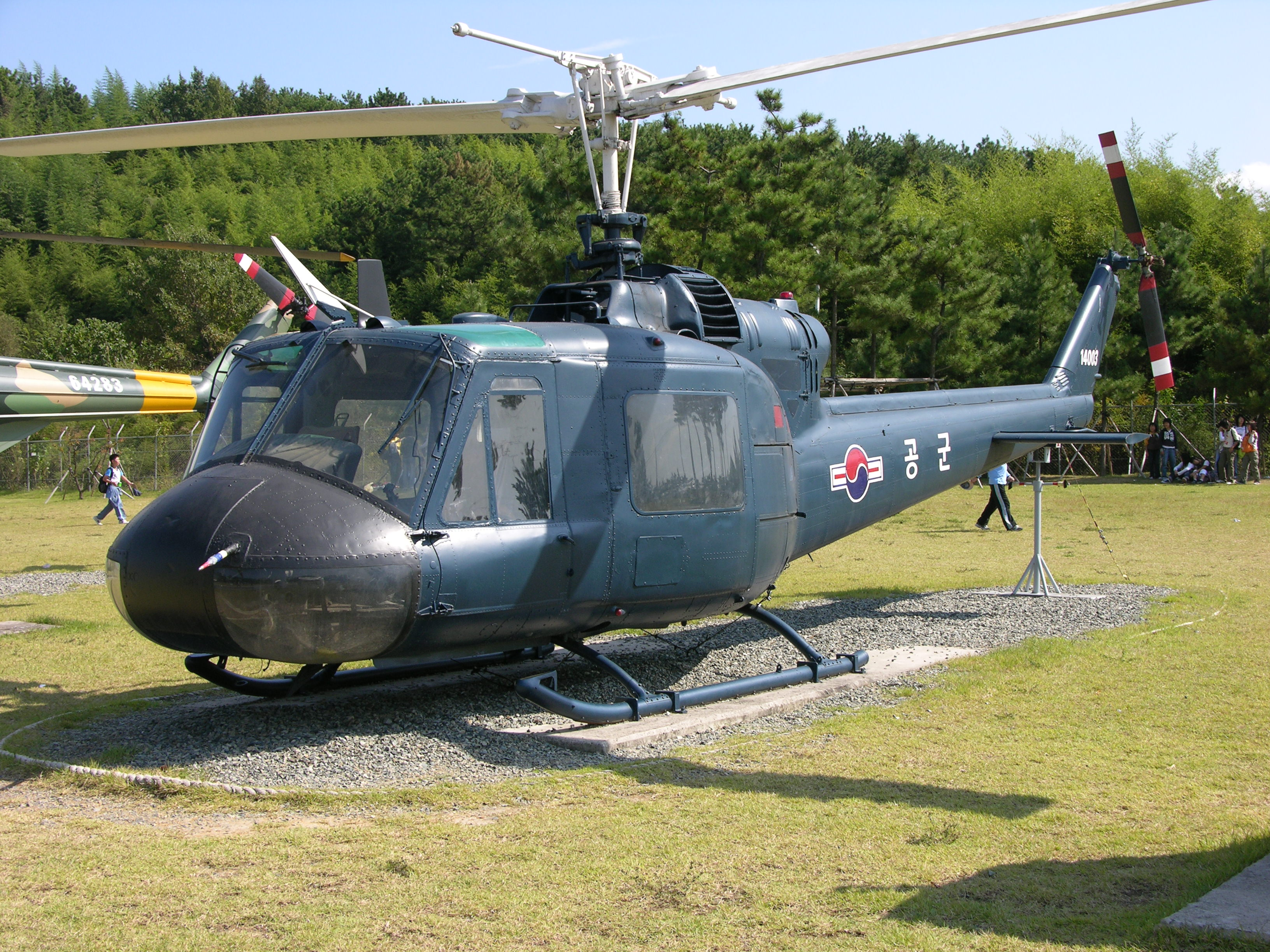 14003 Bell UH-1B Korean Army